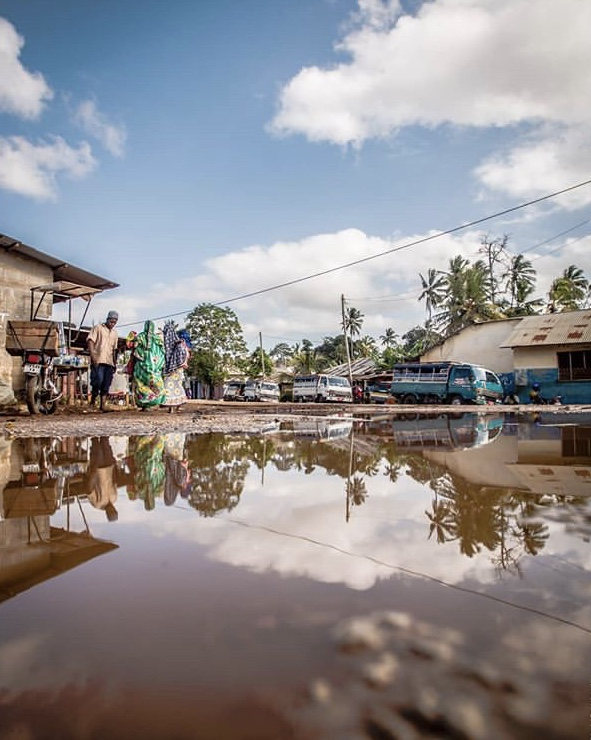 These Toyota mini trucks have been customized to be as public transport in Pemba island. Roof for cargo and side benches for passengers who have look each until they reach the destination. Passengers on the back don’t even see where they re going and feels like being a cargo also but you get where you want to go! This is an image with the theme "Africa on the Move or Transport" from: Tanzania